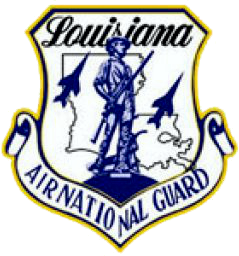 Logo of the U.S. Louisiana Air National Guard.